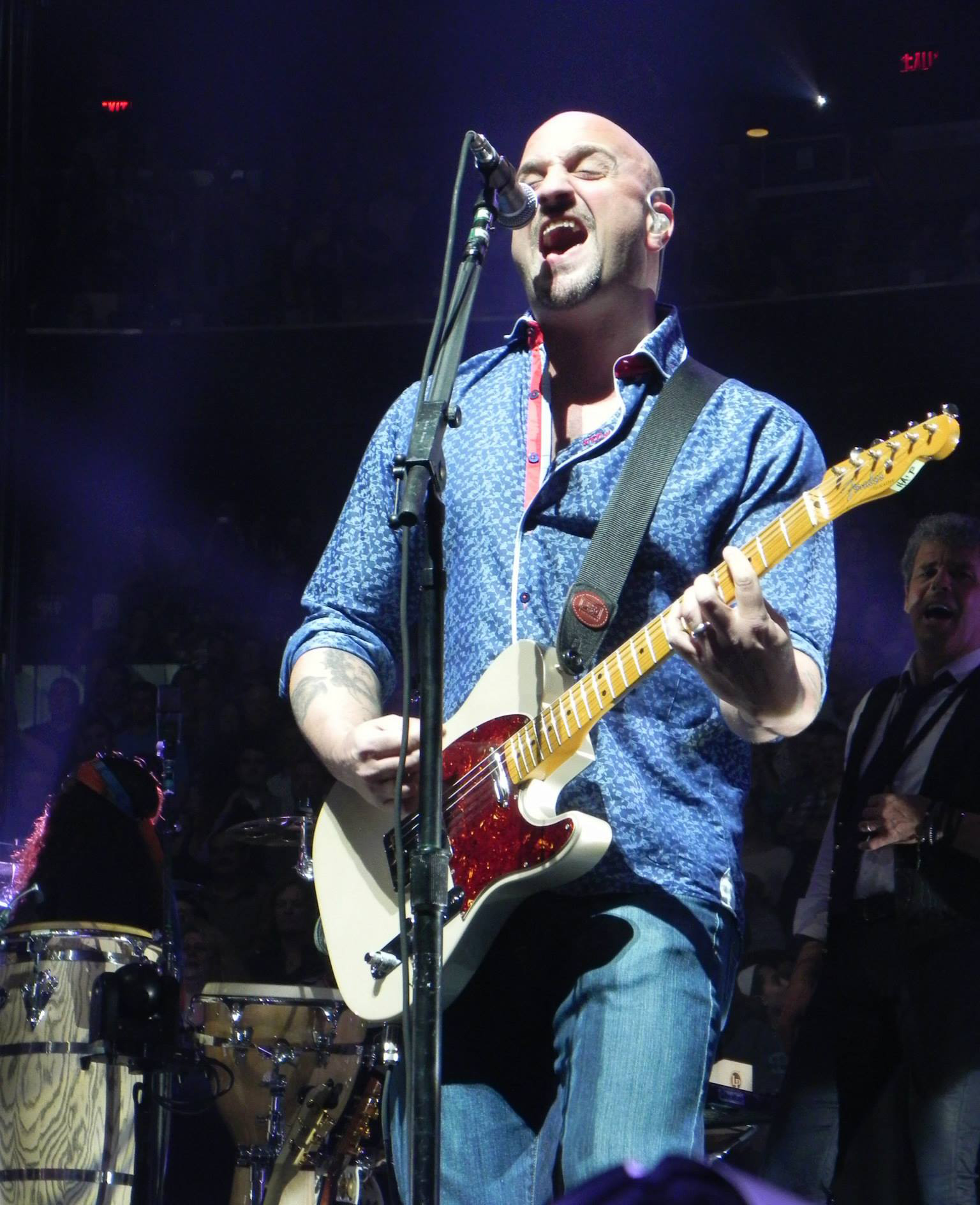 Mike DelGuidice